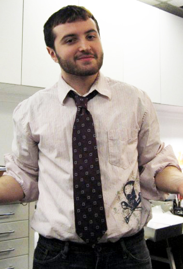 photo of Josh Adams